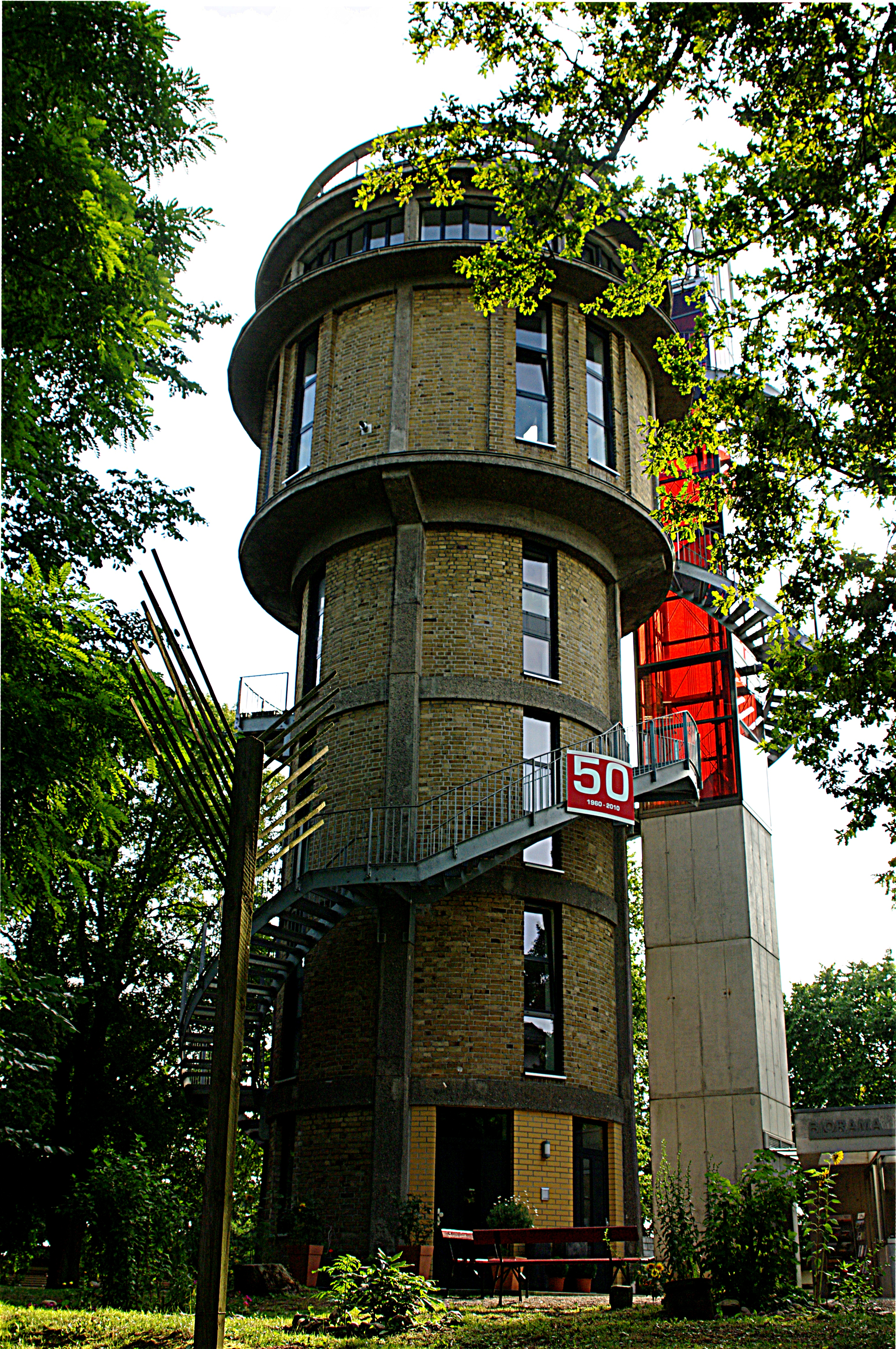 The "Biorama", an old water tower near Joachimsthal